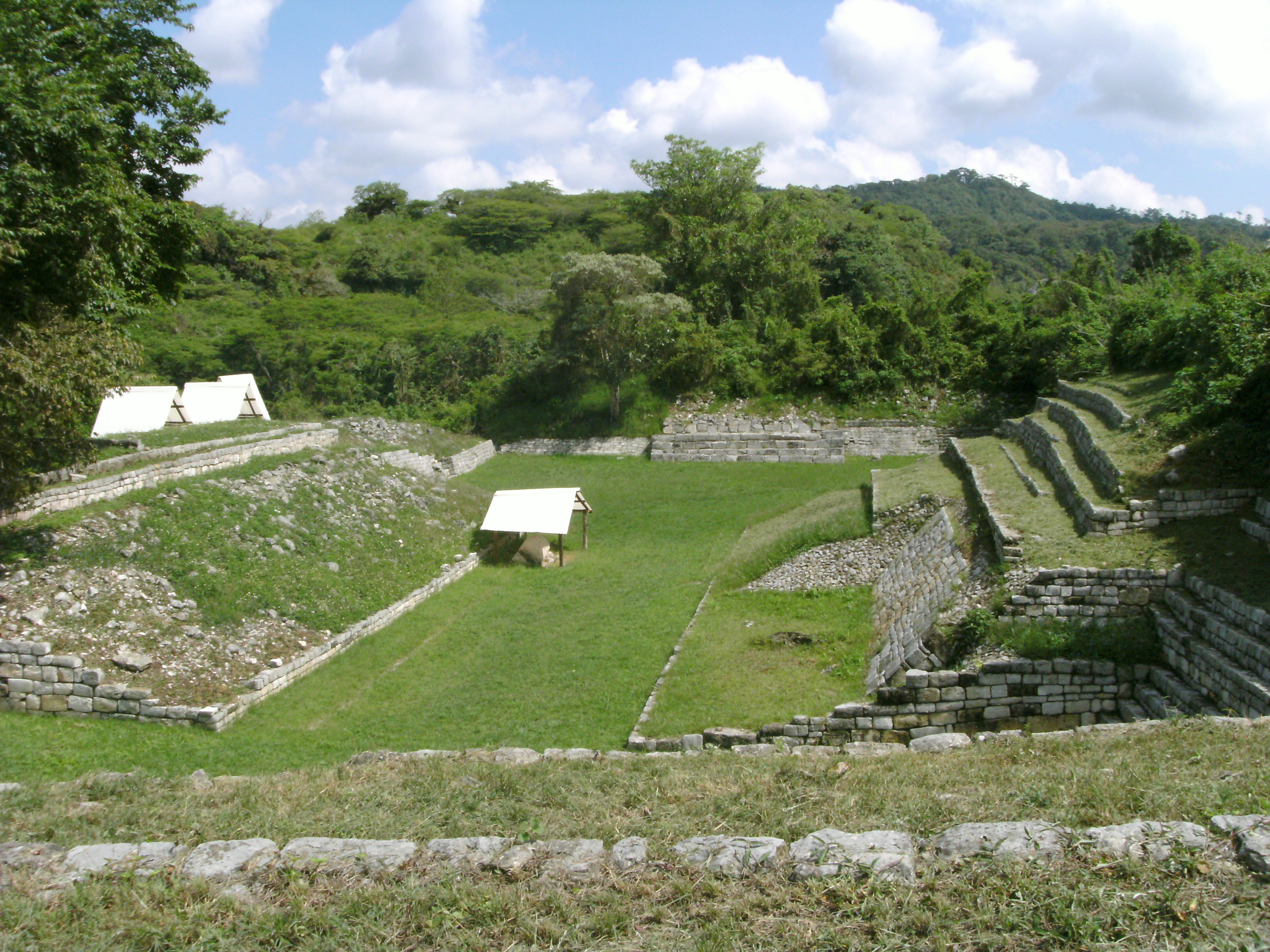 Juego de Pelota, Chinkultic, Chiapas, Mexico